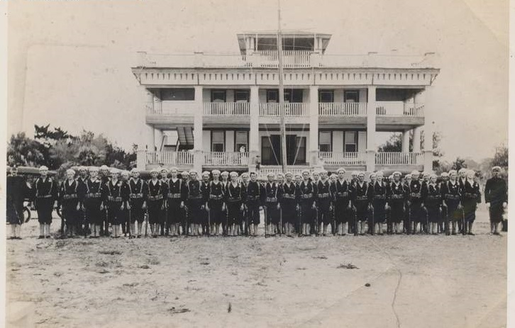 Sarasota Naval Militia in black uniform, 1917.